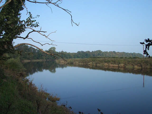 River Eden near Kirkandrews Both the Cumbrian Coastal Way and the Hadrian's Wall Path follow the meanders of the Eden west of Carlisle.